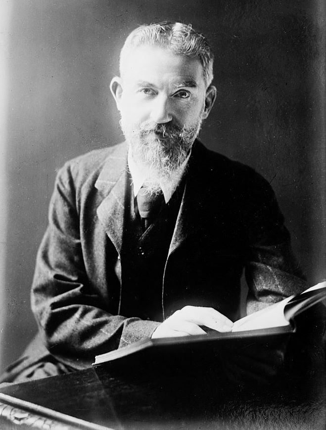 G.B. Shaw at desk with book